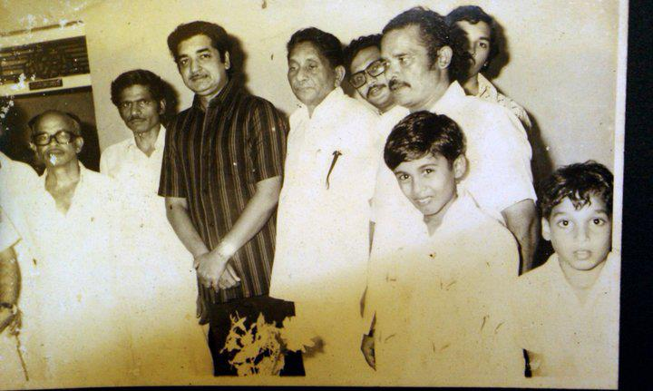 With super star Prem Nazir in his House.